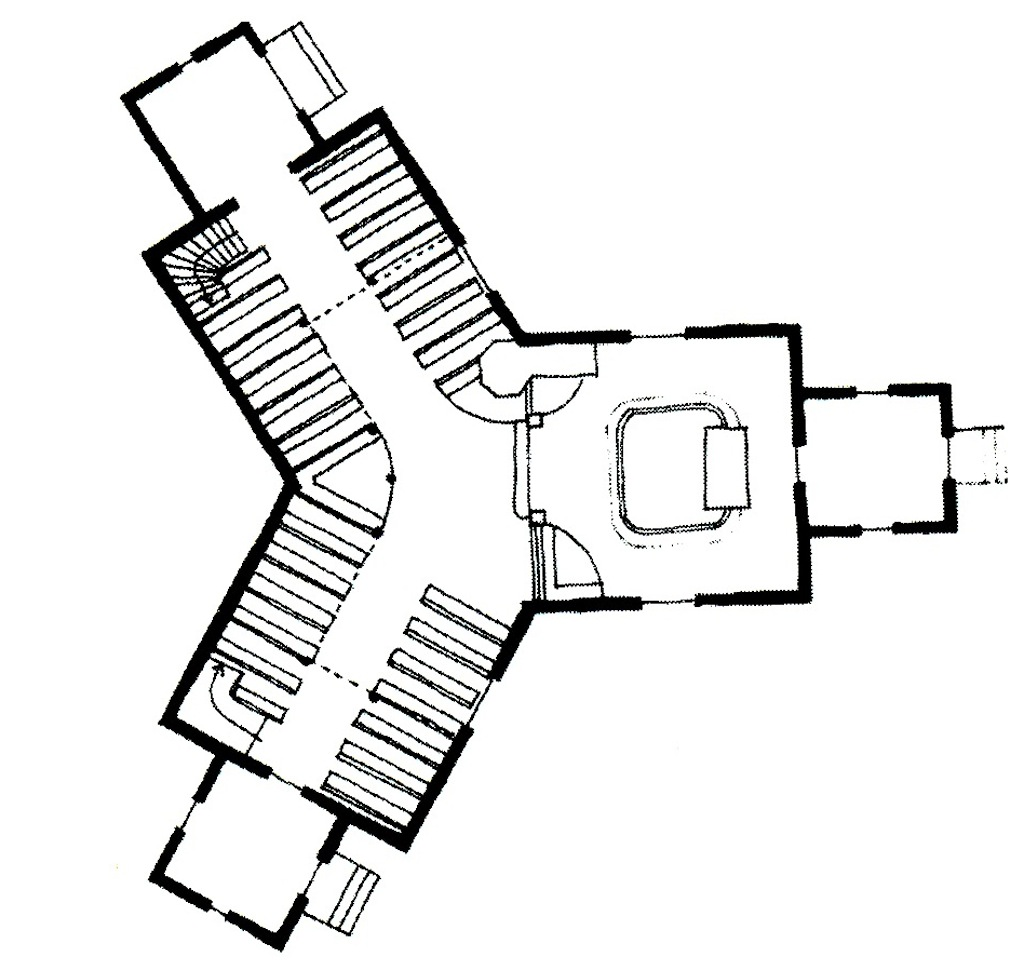 Y-shaped plan of Mo Church, Surnadal (built 1728)